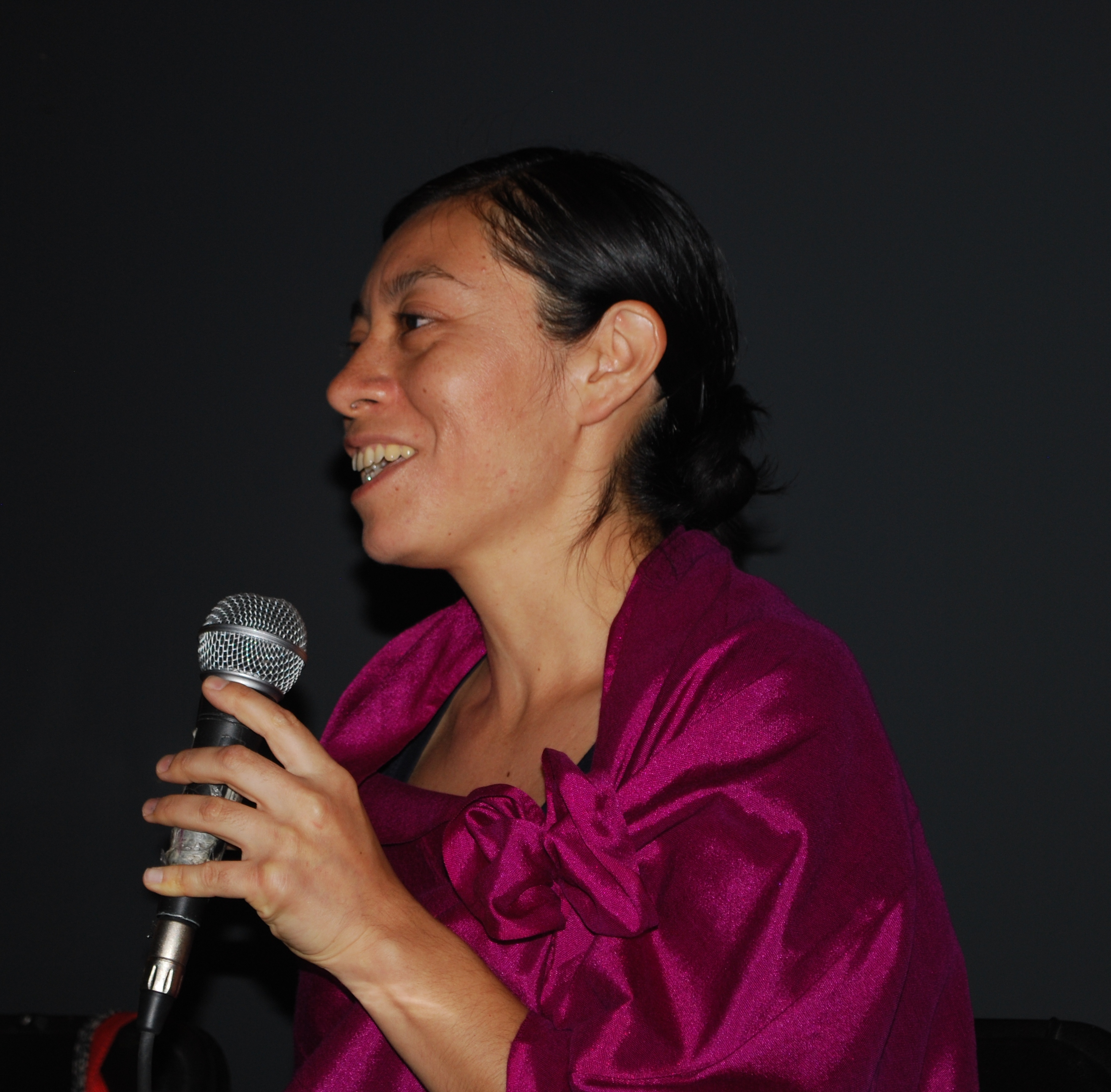 Carolina Esparragoza at the Memoria del Proyecto Miss Lupita at Casa Talavera, Mexico City